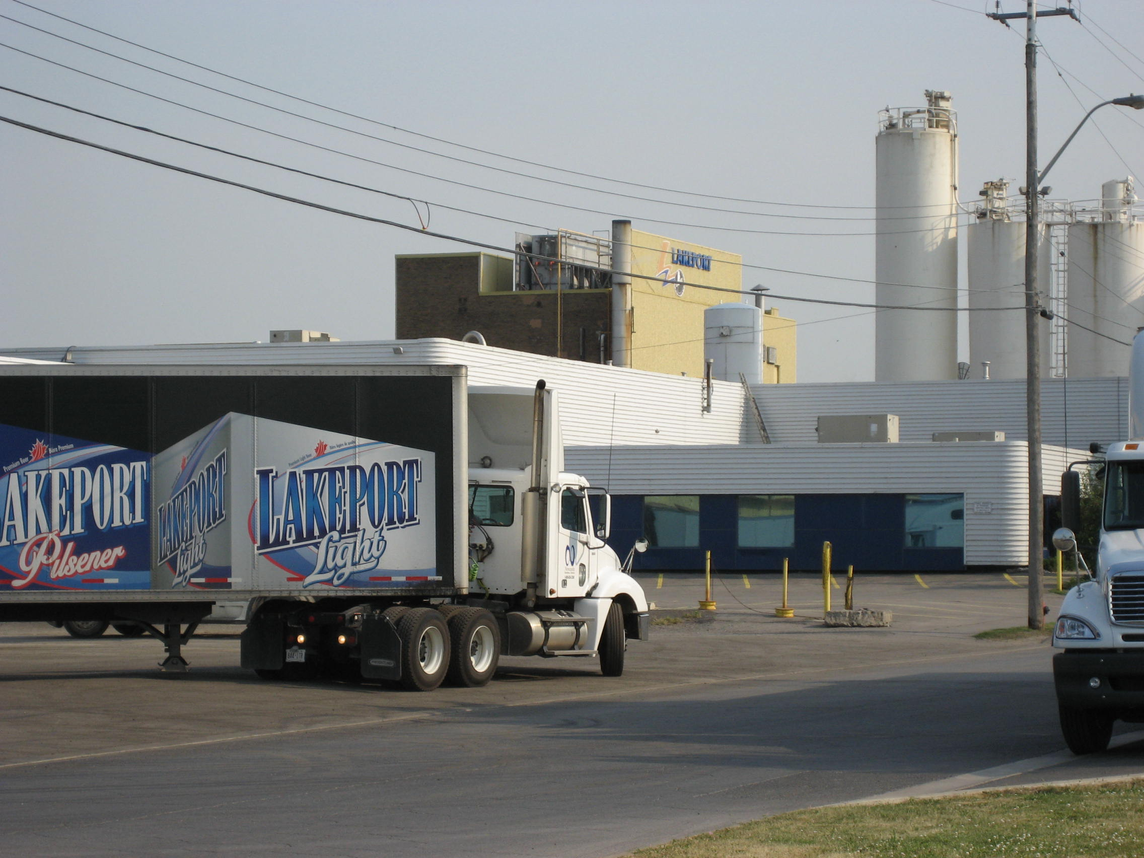 Lakeport Brewery, Burlington & Wellington Streets, Hamilton, Ontario